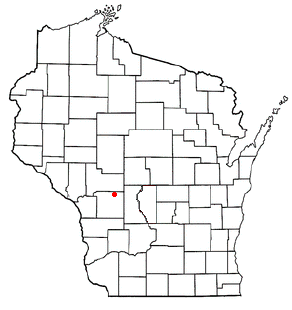 08:44, 26 October 2004 Bumm13 292x310 (26,262 bytes) ( GFDL )